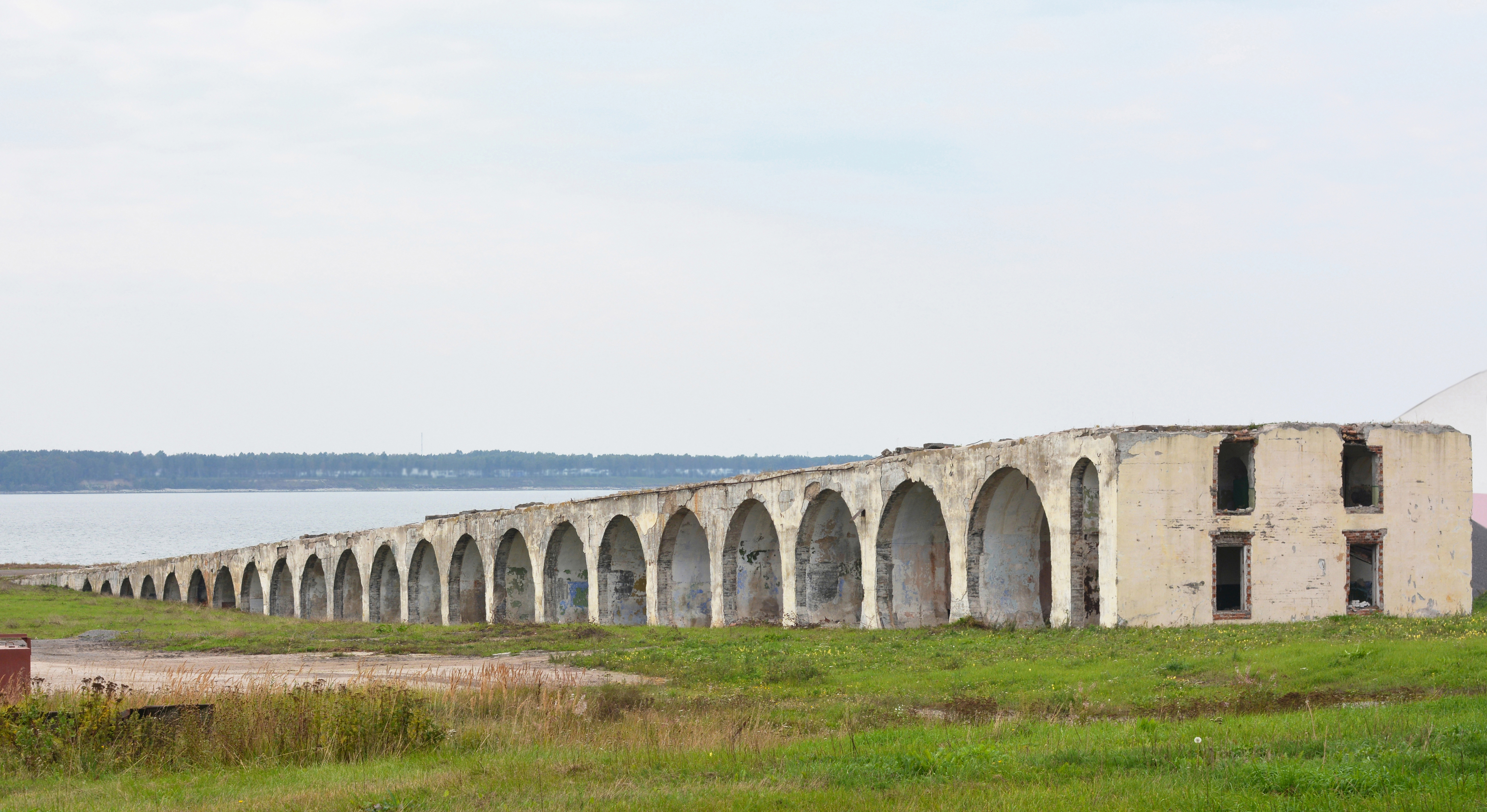 Bekker's Shipyard, slipway built in 1912-1914.